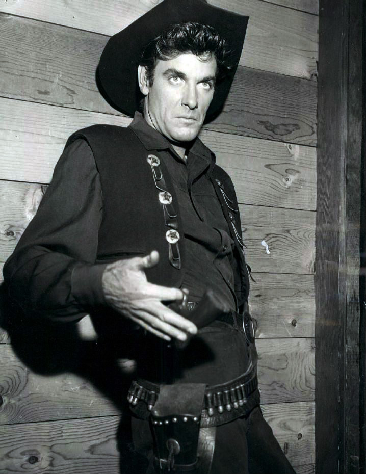 Photo of James Best from the television program Frontier. The episode is "The Return of Jubal Dolan".